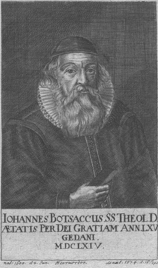 Portrait of de;Johannes Botsack, copper engraving, 142x85 mm